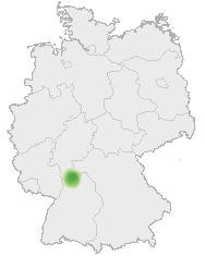 Map of Odenwald, Germany